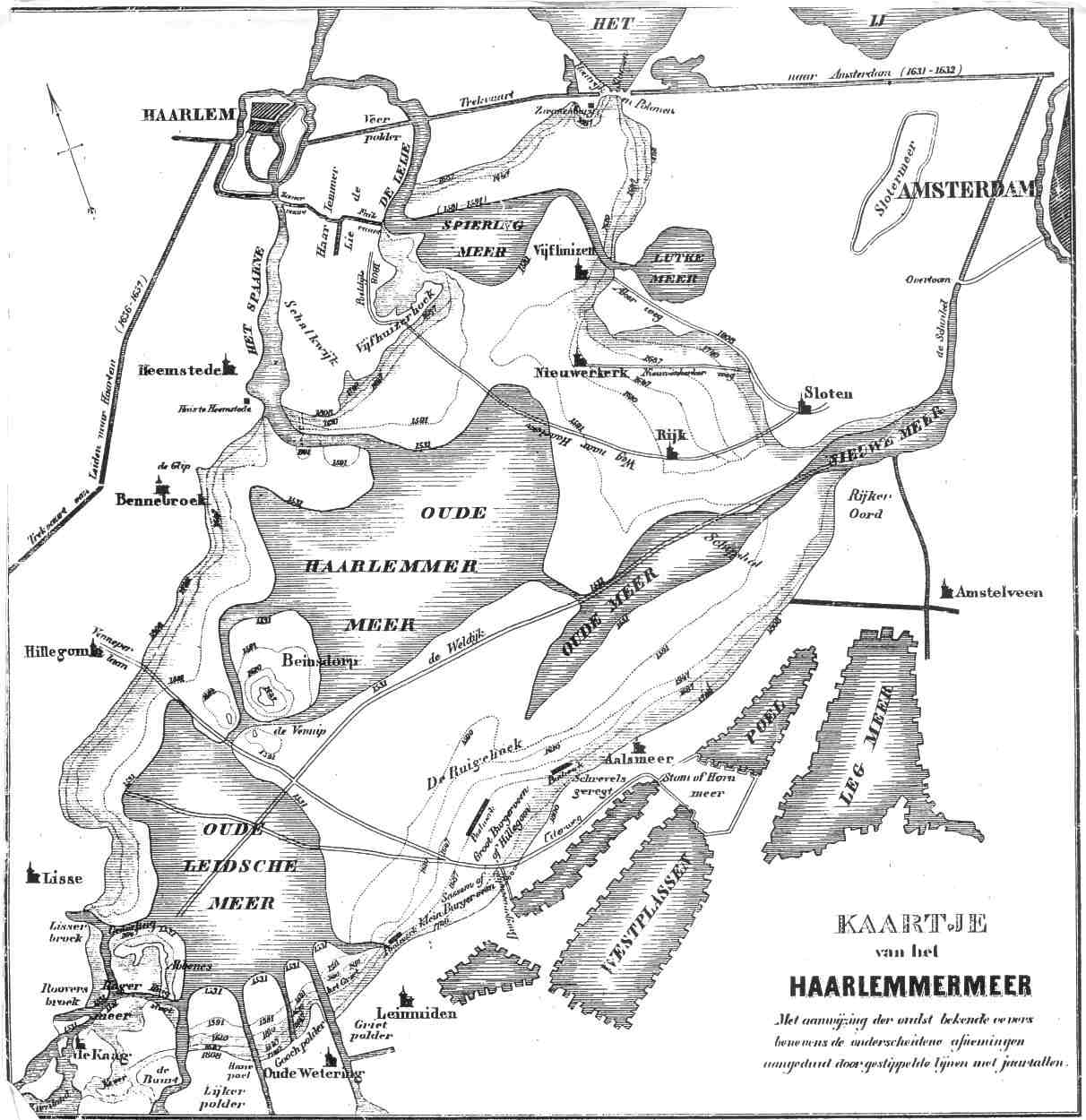 Haarlemmermeer in the middle ages (oude Haarlemmermeer) and the 18th century. .